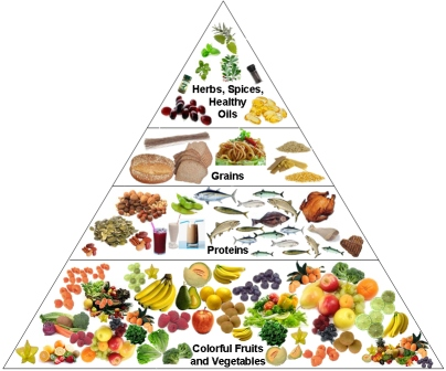 Healthy nutrition pyramid with 7 to 9 servings of fruits and vegetables to get precious phytonutrients to feed your body at the cellular level Peter O Halloran Ppt fitness and nutrition